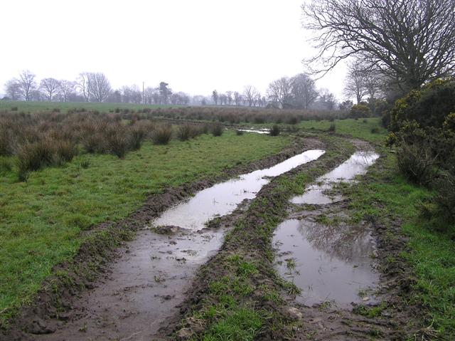 Kilcroagh Townland. I'm not even going to put on the wellies.